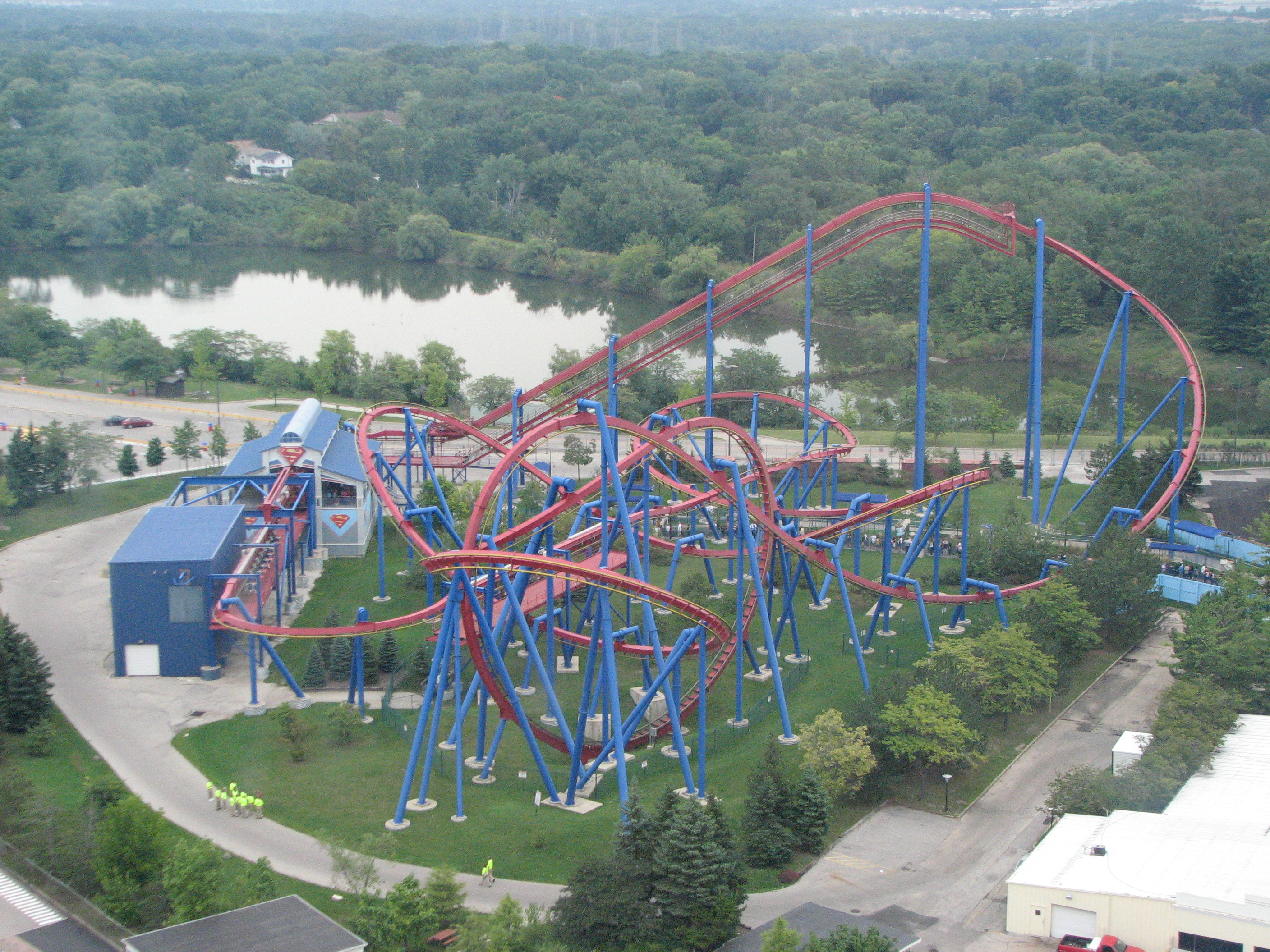 Superman Ultimate Flight overview